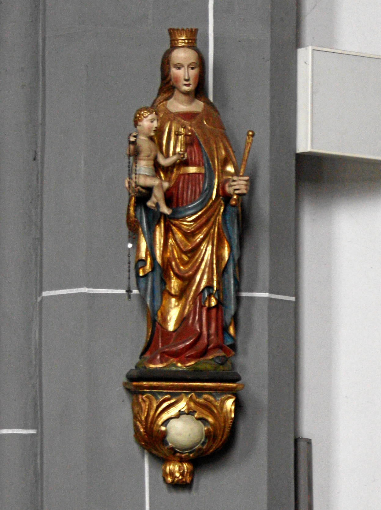 Düsseldorf, Germany. Catholic church St. Lambertus: madonna with child, 11th century.